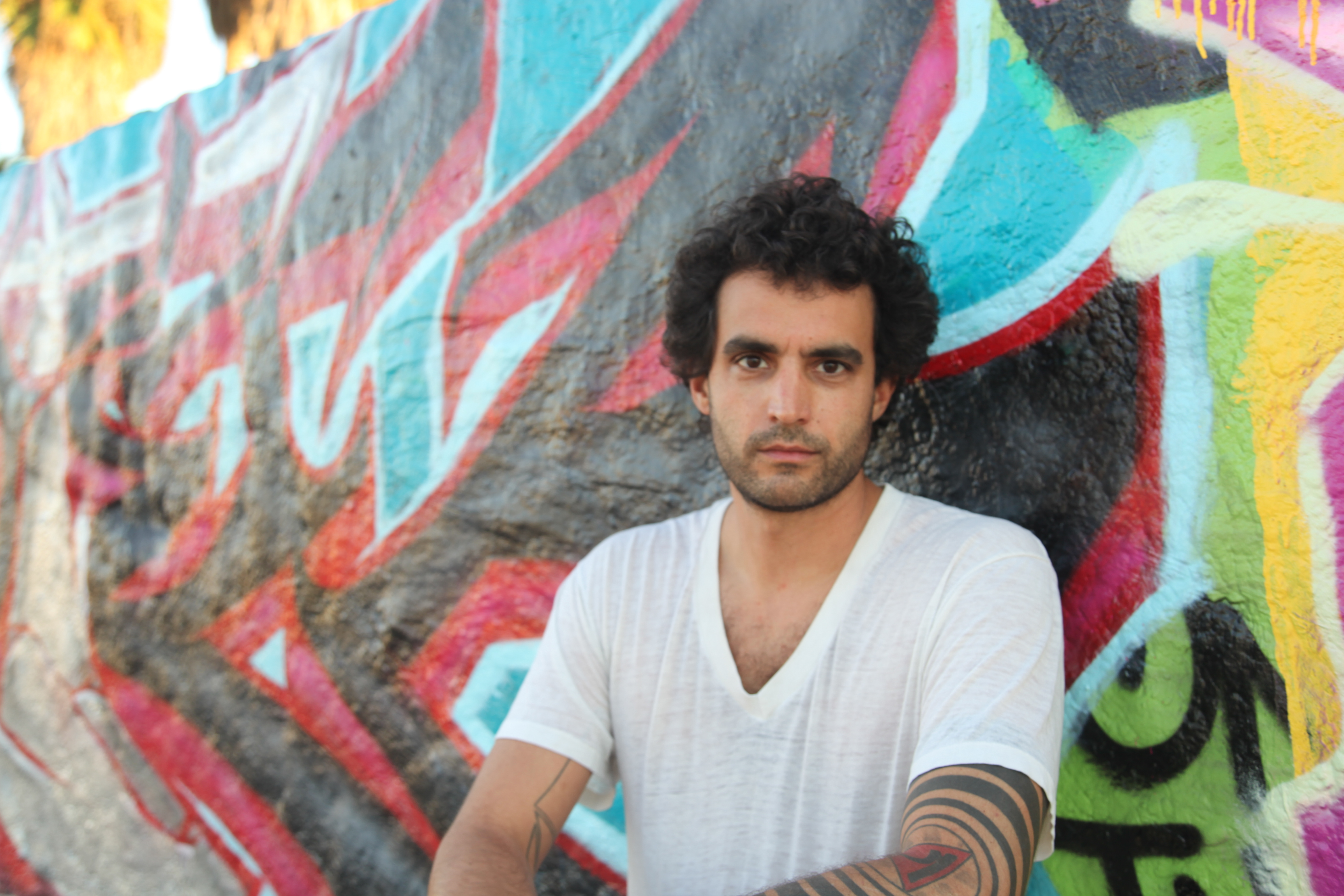 musician Kraddy, 2012